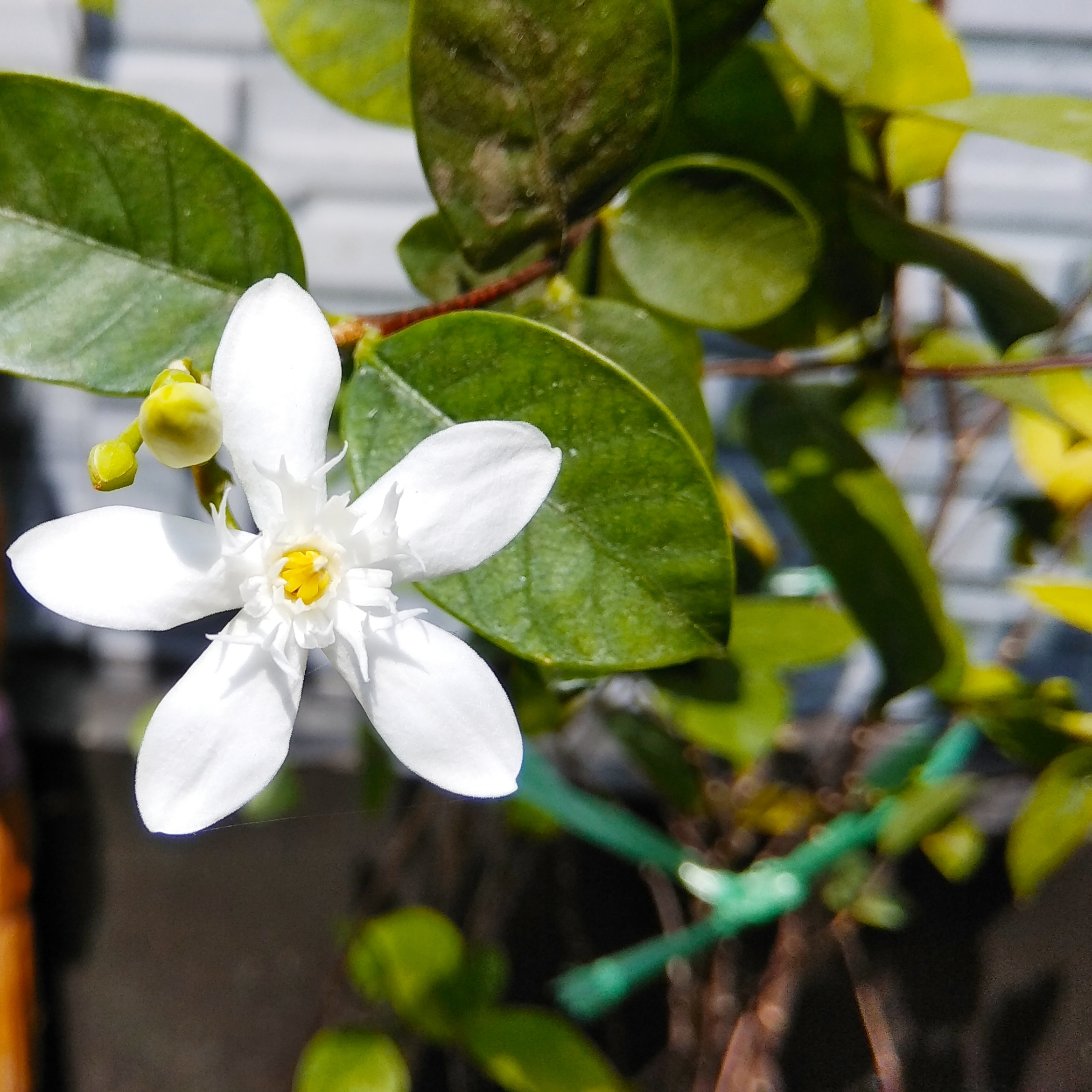 Wrightia antidysenterica